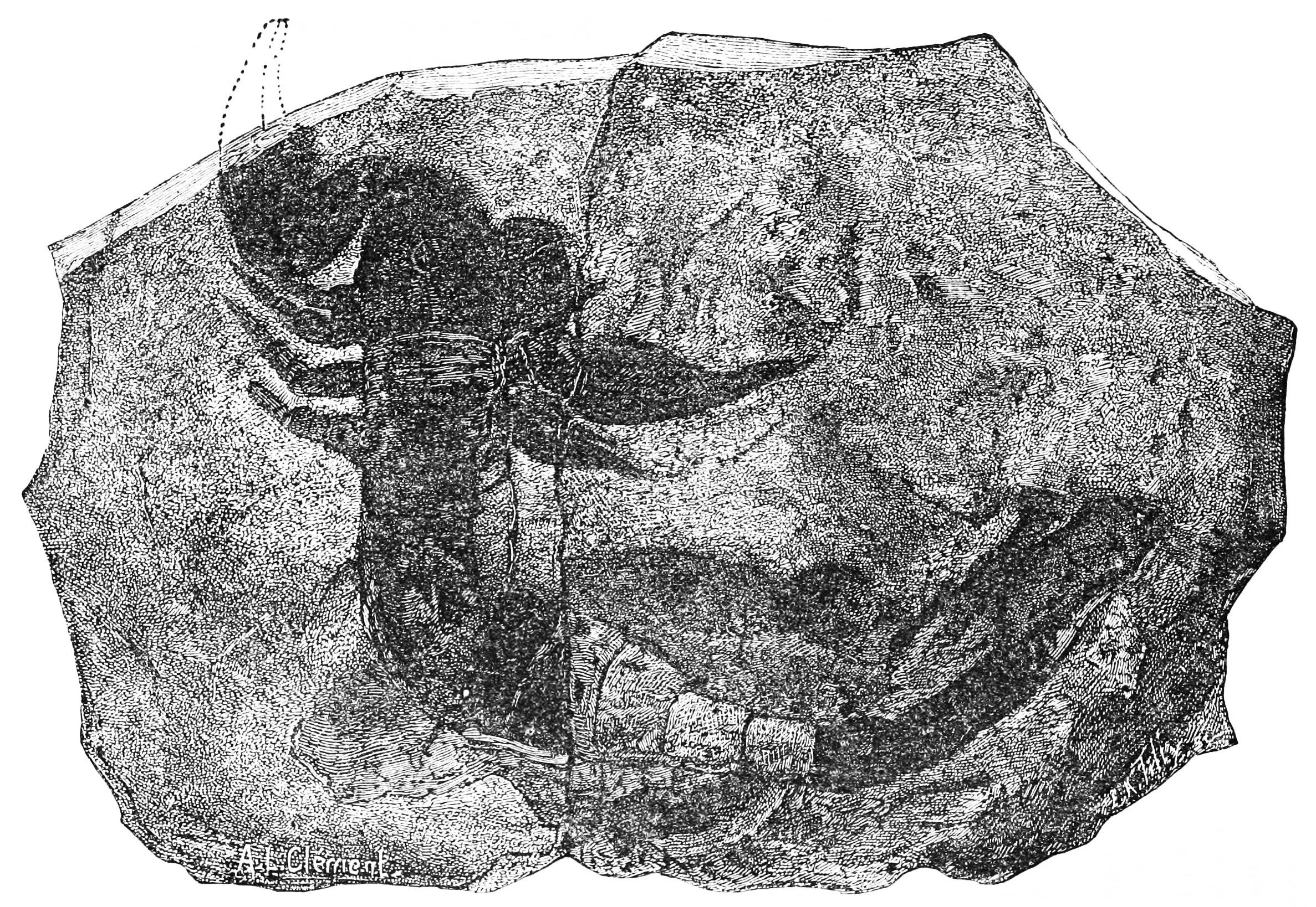 "Fossil scorpion (Palaeophoneus nuncius) found in the Silurian Rocks of the Island of Gottland, Sweden. From the photograph sent by Professor Lindstrom to M. Alphonse Milne-Edwards. (From "La Nature")"